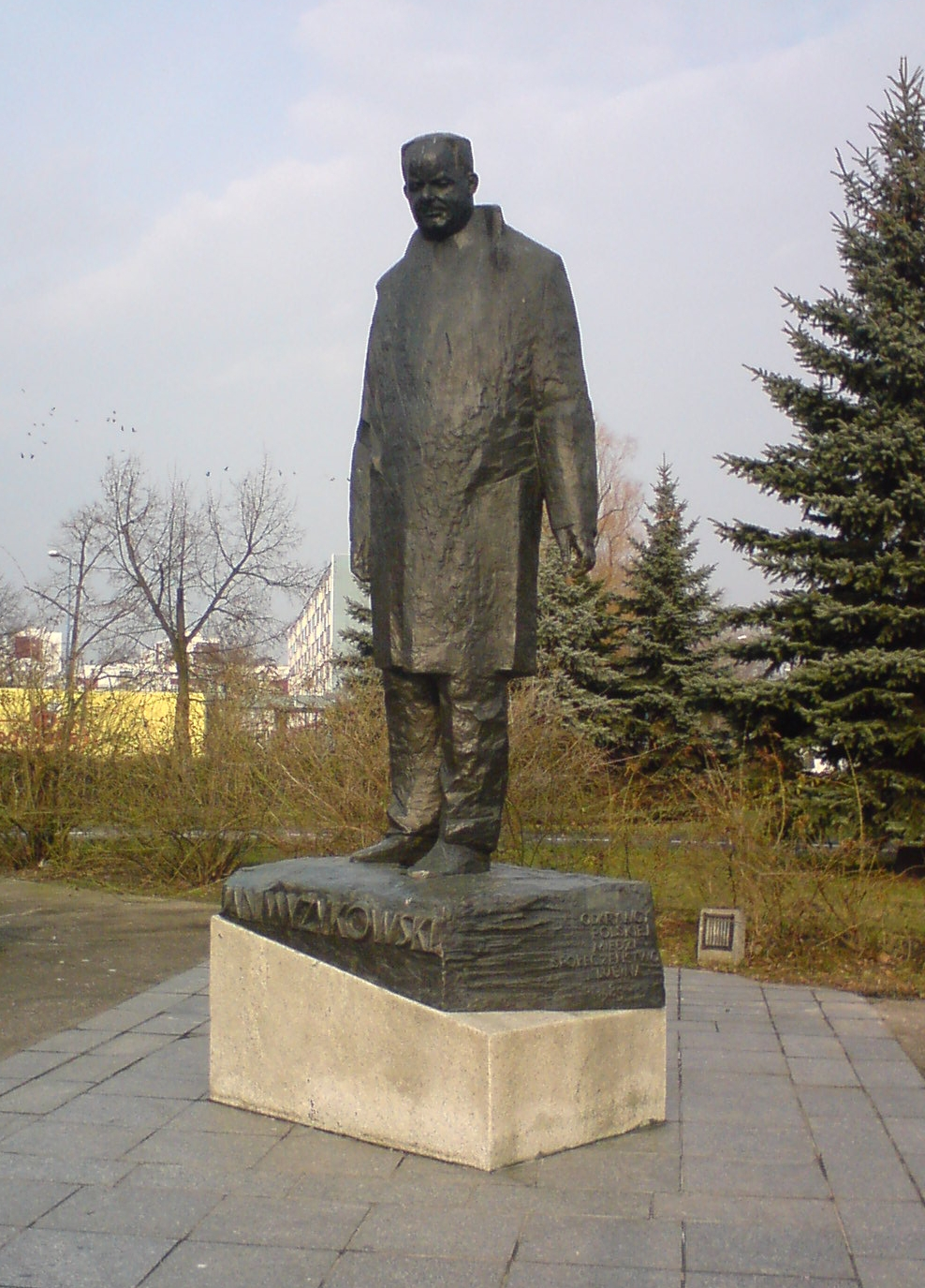 The monument of Jan Wyżykowski (explorer ores of copper in area between Legnica and Głogów) which is in Jan Wyżykowski park in Lubin.